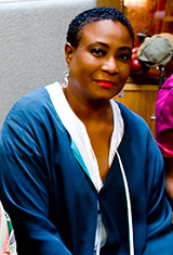 Geri Allen, taken in Brooklyn, NY.